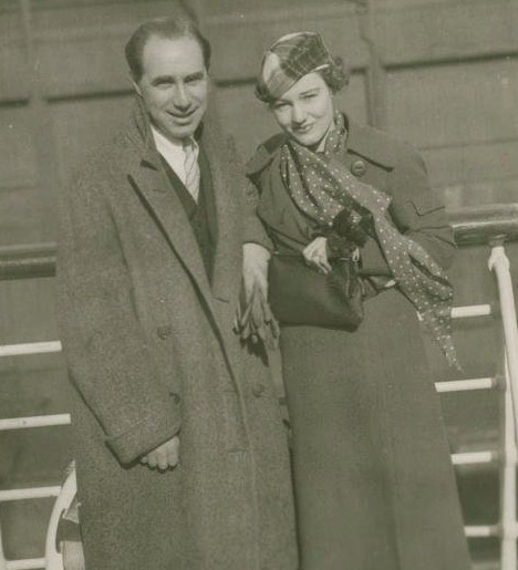 playwright Benn W. Levy & actress Constance Cummings (his wife) - publicity still (cropped)